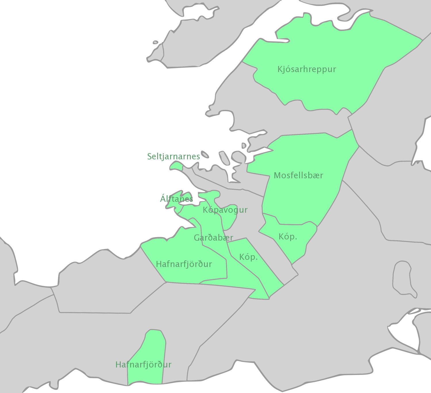 A map of the Southwestern electoral district in Iceland.